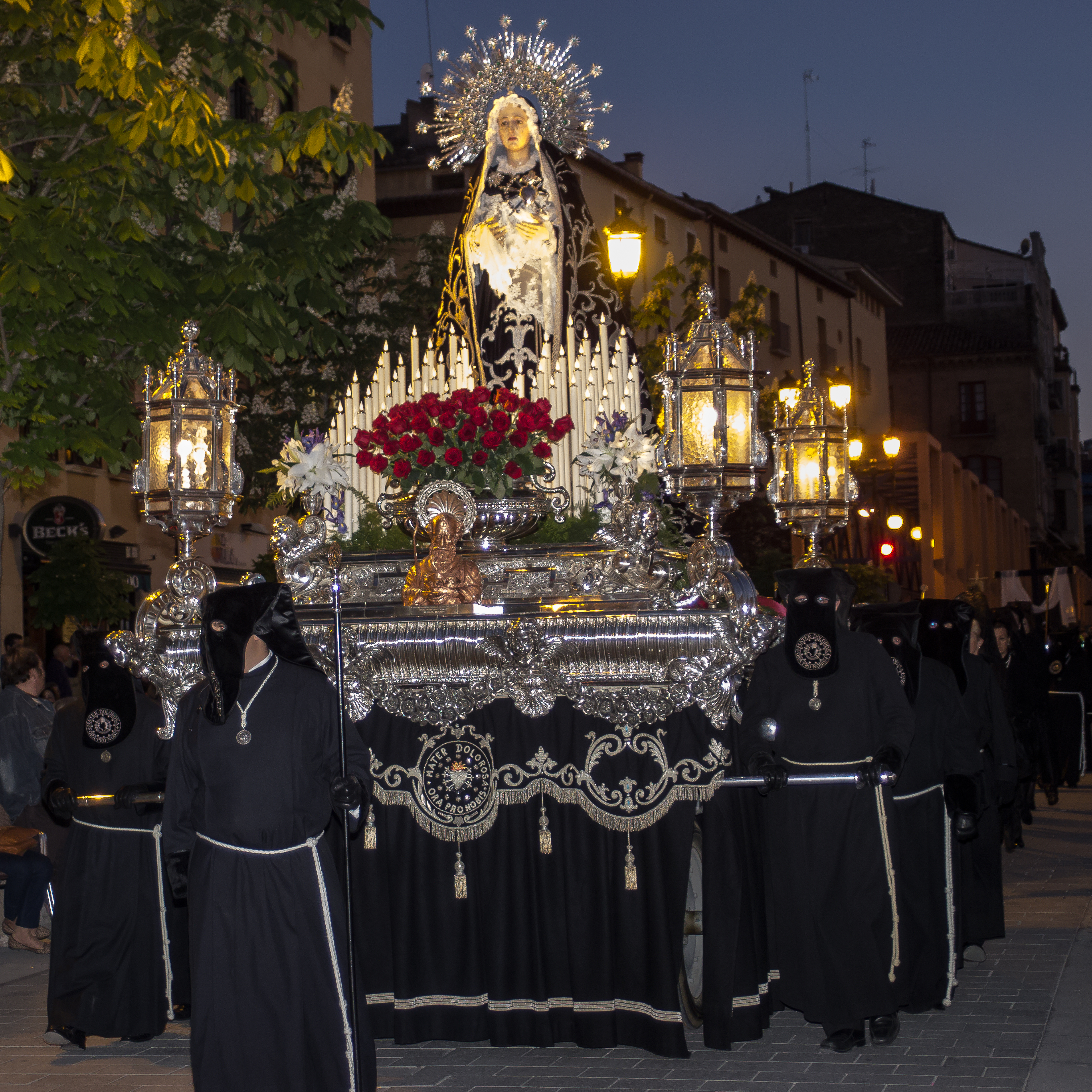 OLYMPUS DIGITAL CAMERA This is a photography of a Folklore festival in Spain (Wikidata id Q9075892).